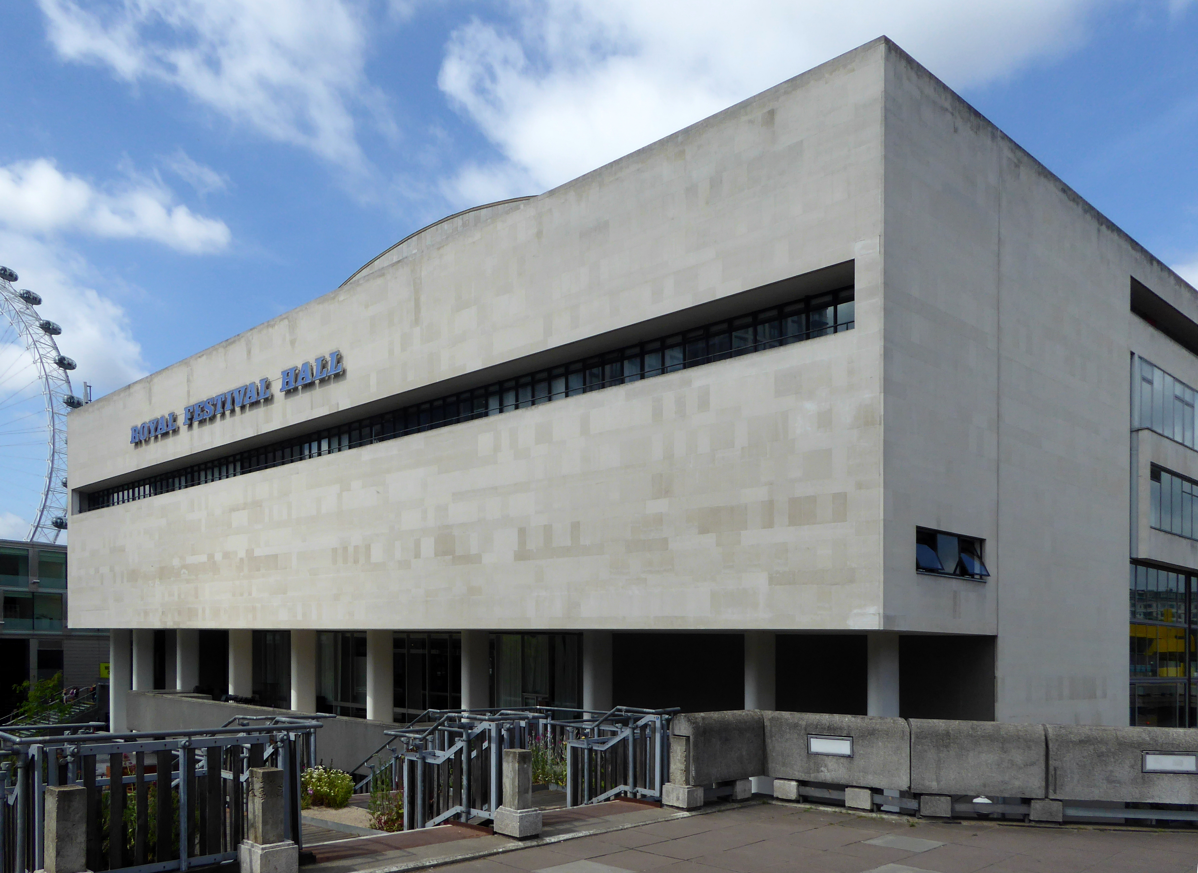 Royal Festival Hall as seen from outside the Hayward Gallery, London Borough of Lambeth.